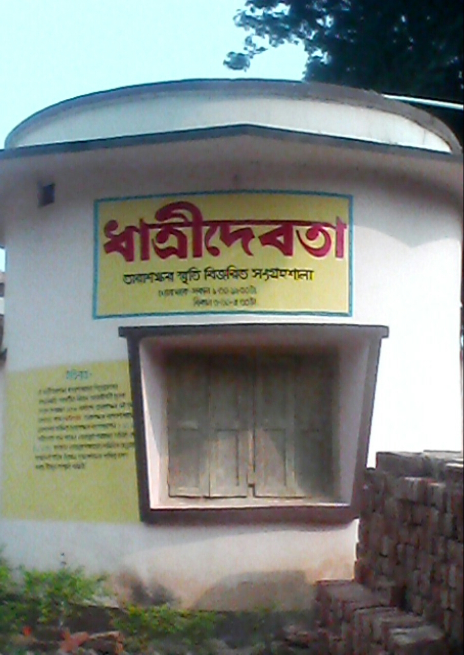 House of Tarashankar Banerjee. Luvpur. Birbhum